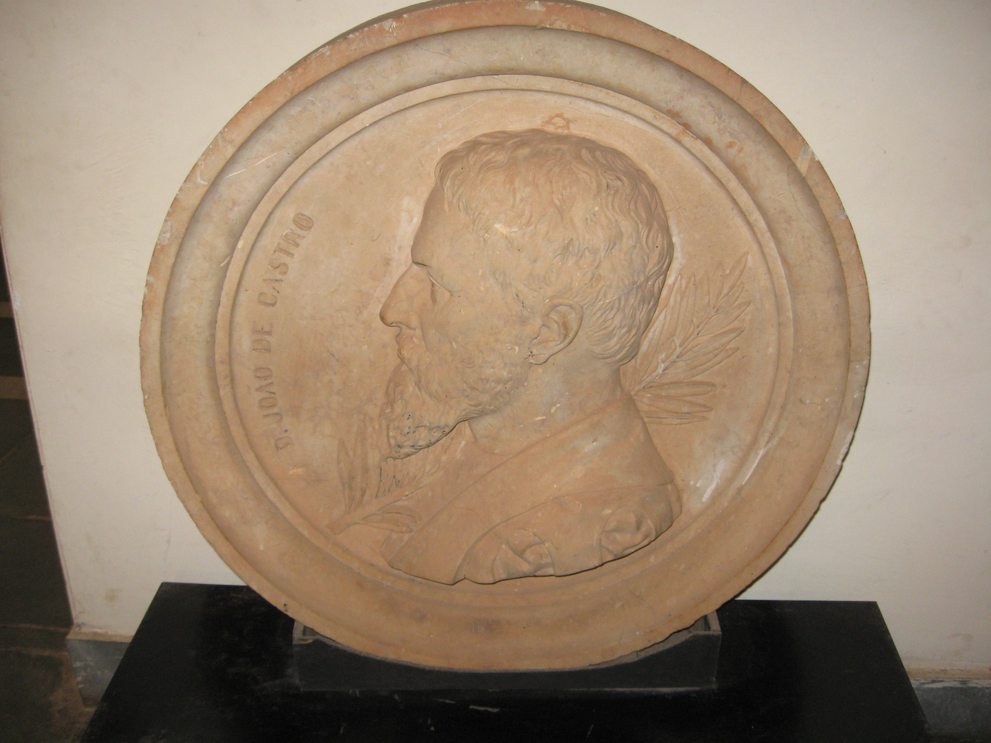 Artifacts at the Goa State Museum